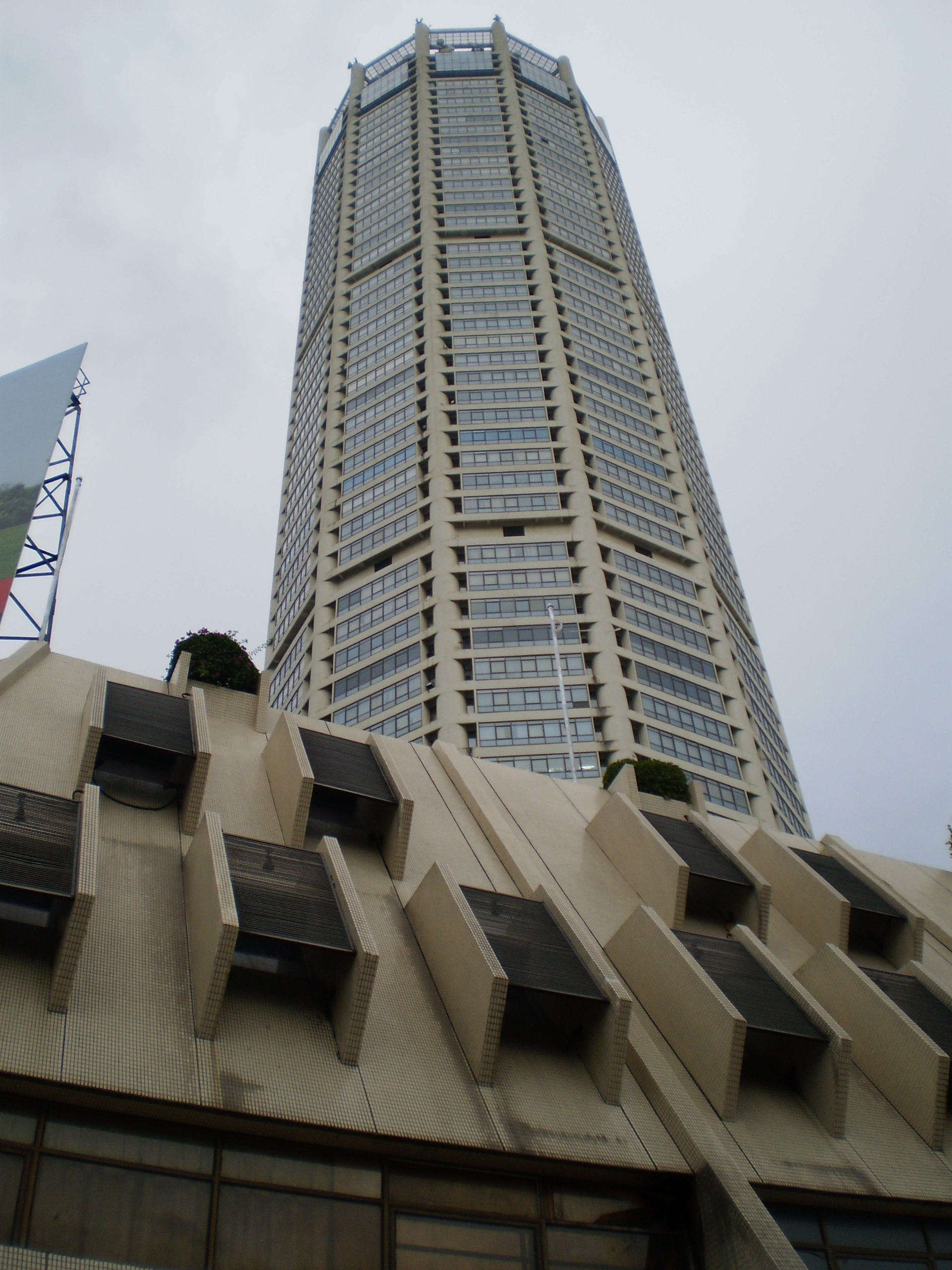 Menara KOMTAR, Penang's tallest building and the sixth tallest building in Malaysia located in the heart of George Town, dominating the island's skyline.